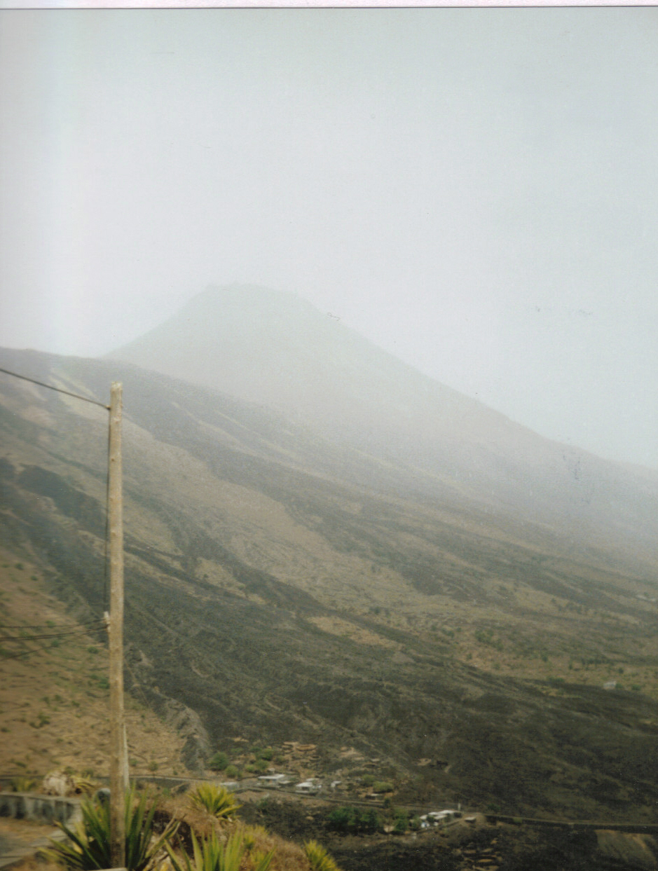 Village of Cova Matinho with volcano Pico de Fogo in the background, Fogo Island, Cape Verde